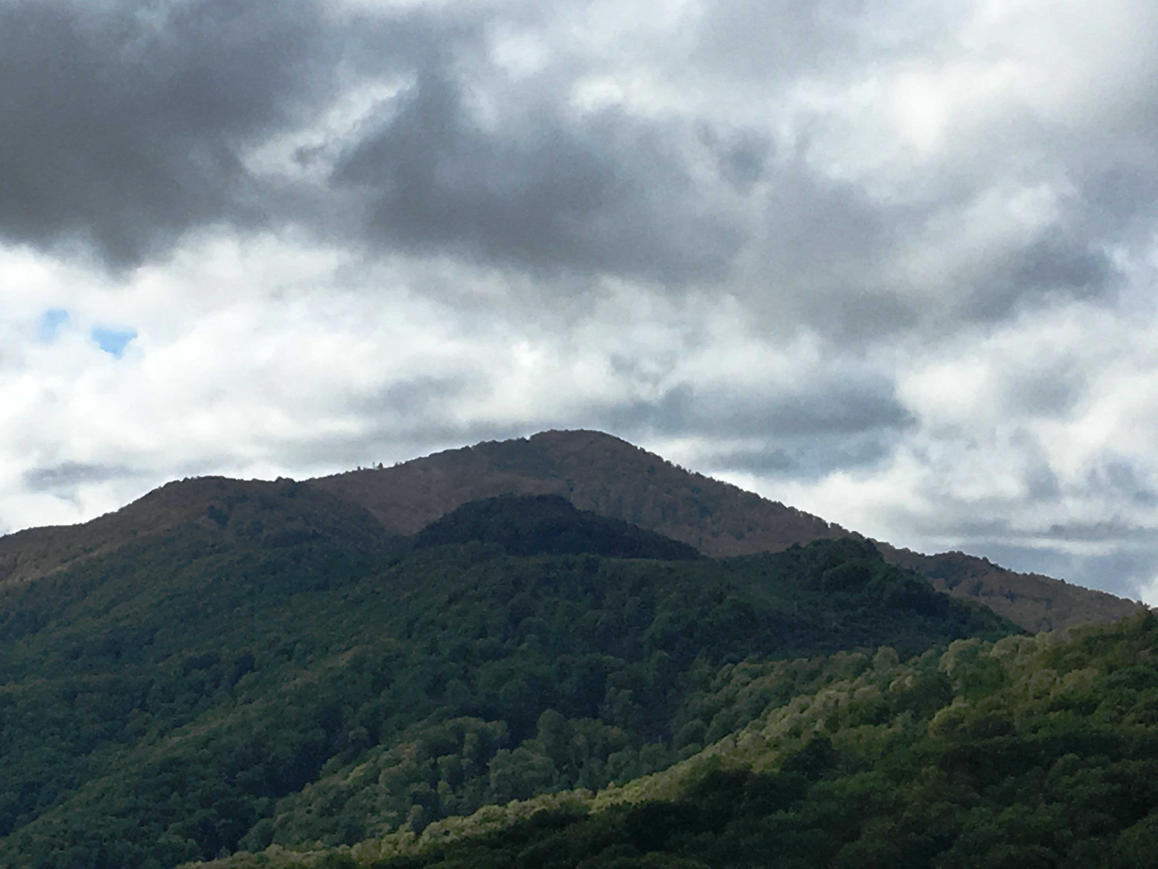 Peak Lisec (1,754 m) on Plačkovica, Macedonia.